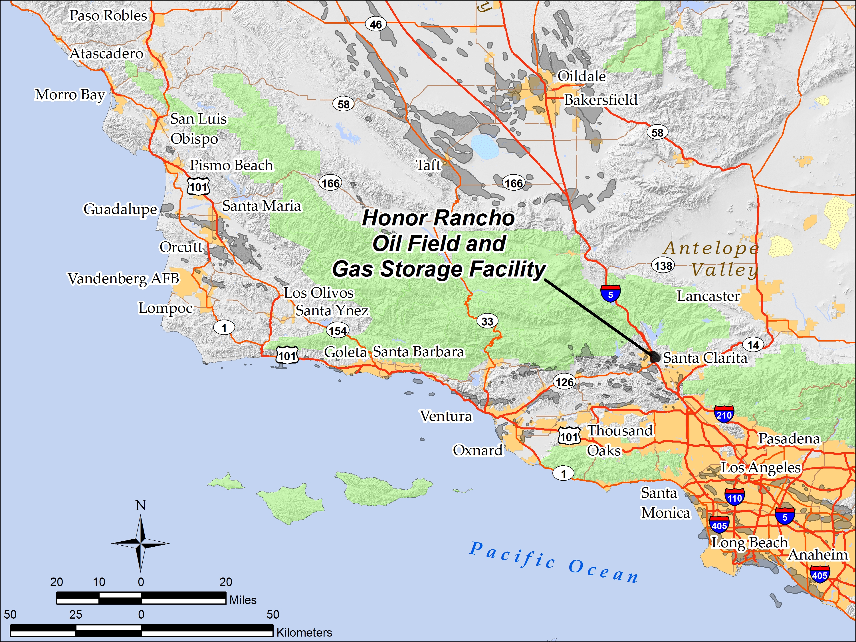 Location of Honor Rancho Oil Field/gas storage facility in Southern California, with scale, etc. From public domain data, by self in ArcGIS 10.2, cc-by-sa and GFDL.